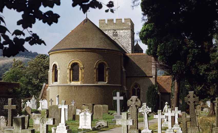 The Norman church of St Thomas of Canterbury at Goring-on-Thames. It is a Grade I listed building. Scanned from a Kodachrome 35mm slide.